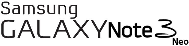 Samsung Galaxy Note 3-neo logo for site.